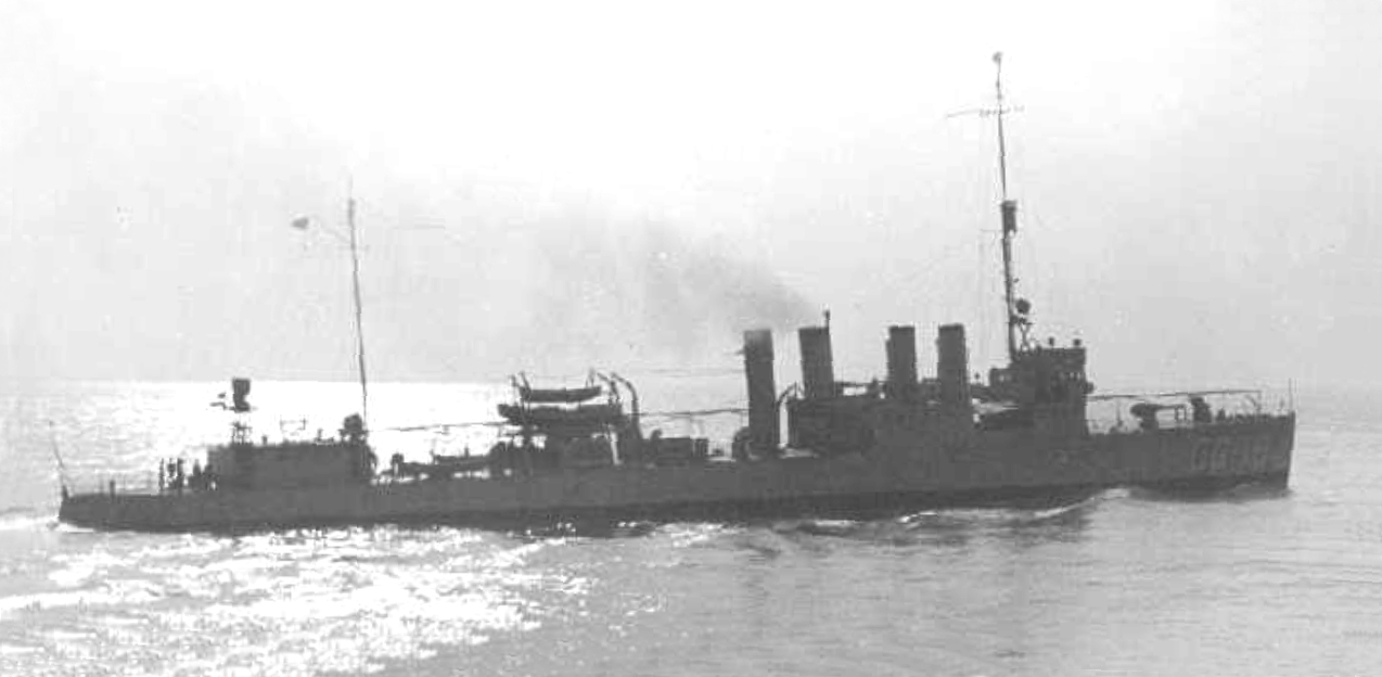 The U.S. Coast Guard destroyer USCGD Hunt (CG-18) underway in the early 1930s. The former USS Hunt (DD-194) was commissioned in the U.S. Coast Guard from 5 February 1931 to 28 May 1934.